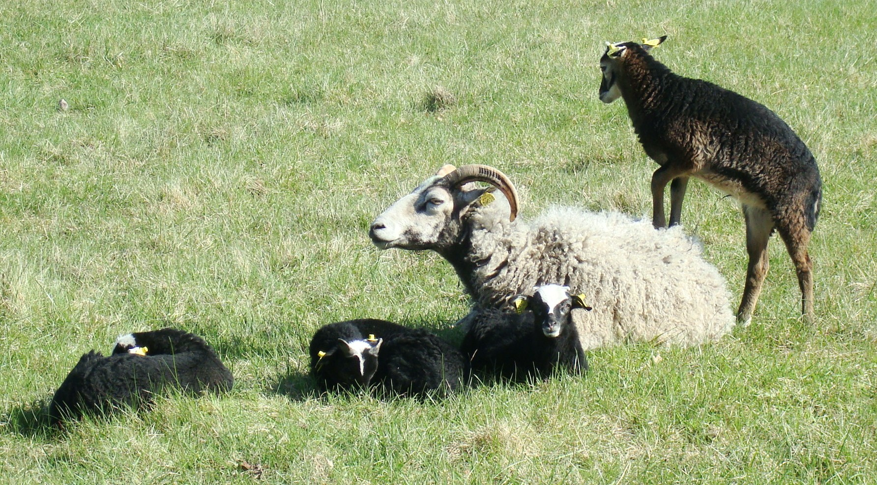 The gute sheep at Polacksbacken, Uppsala, Sweden